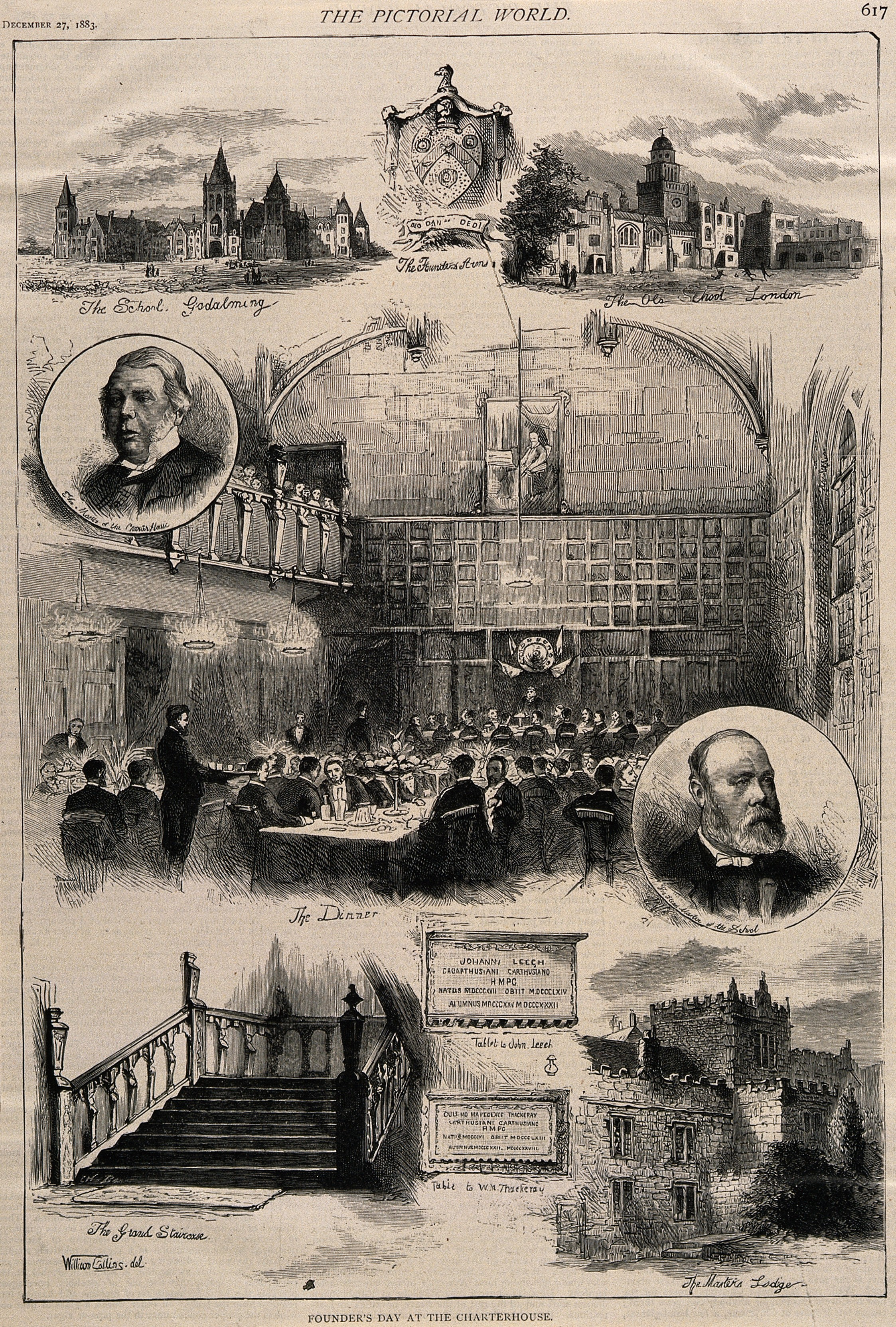 Charterhouse School, Godalming, Surrey: Founder's Day dinner, coat of arms, important school plaques and people. Wood engraving by W. Collins, 1883. Iconographic Collections Keywords: John Leech; William Makepeace Thackeray; William Collins